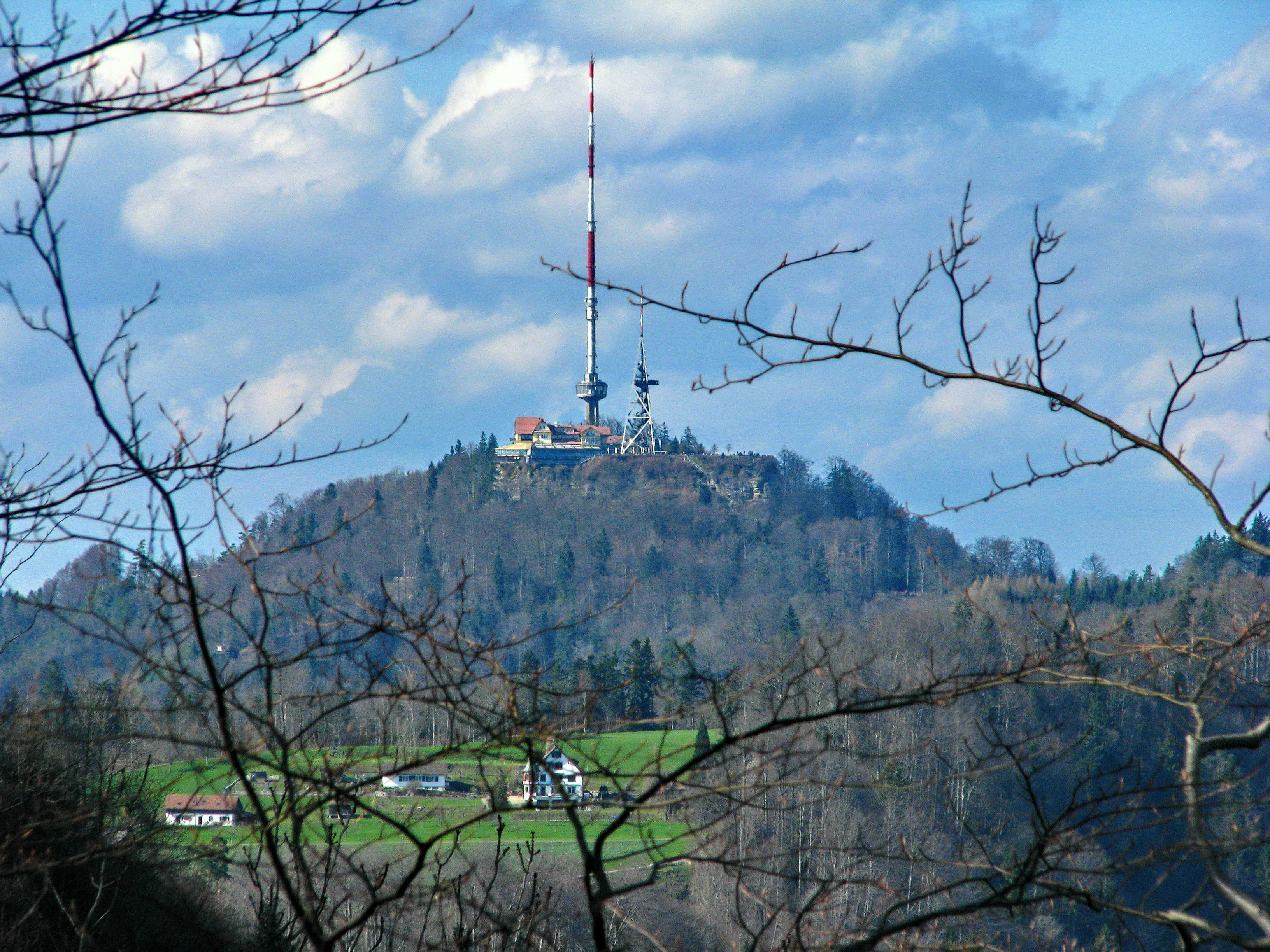 Uetliberg as seen from Albis mountain range in the canton of Zürich